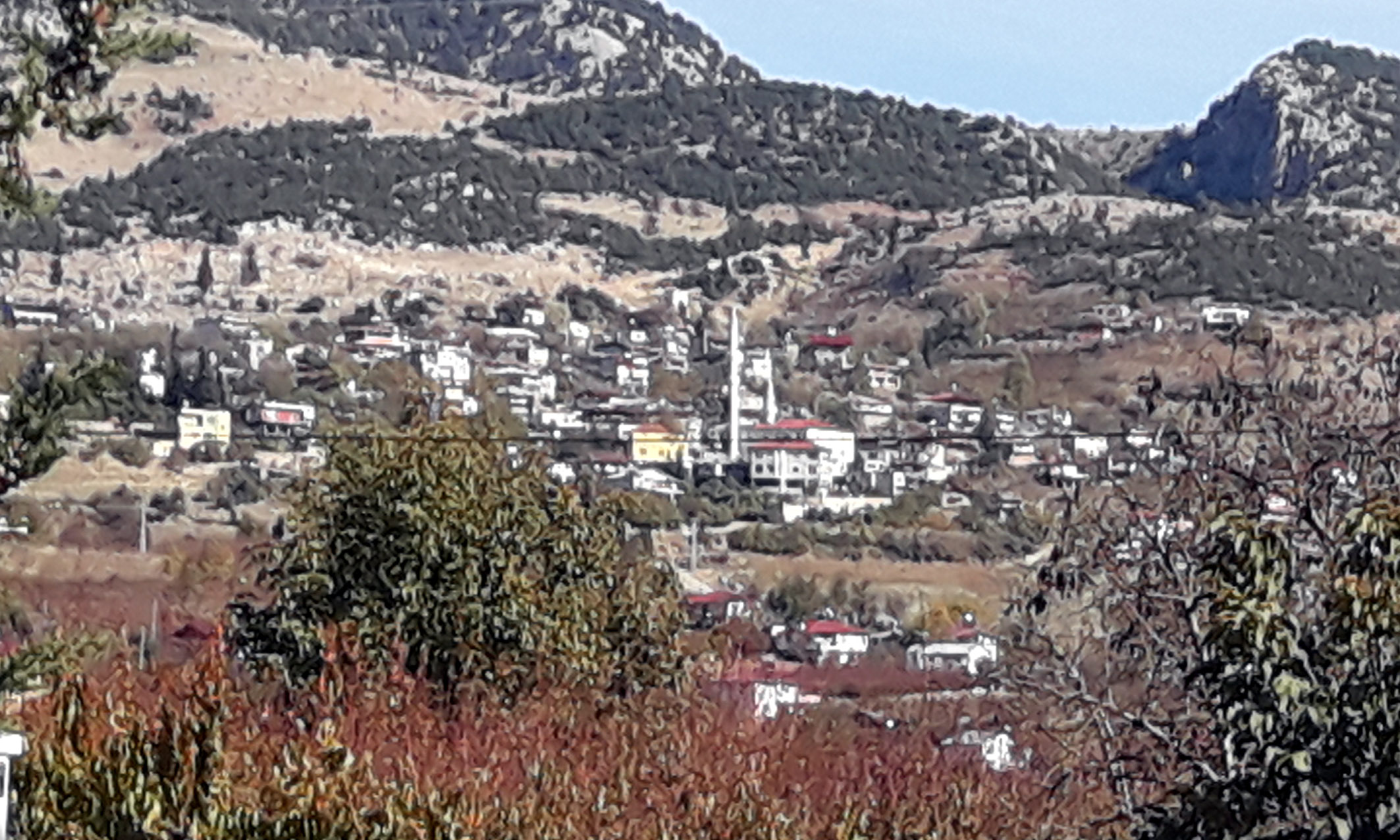 Değirmendere village in Mersin, Turkey